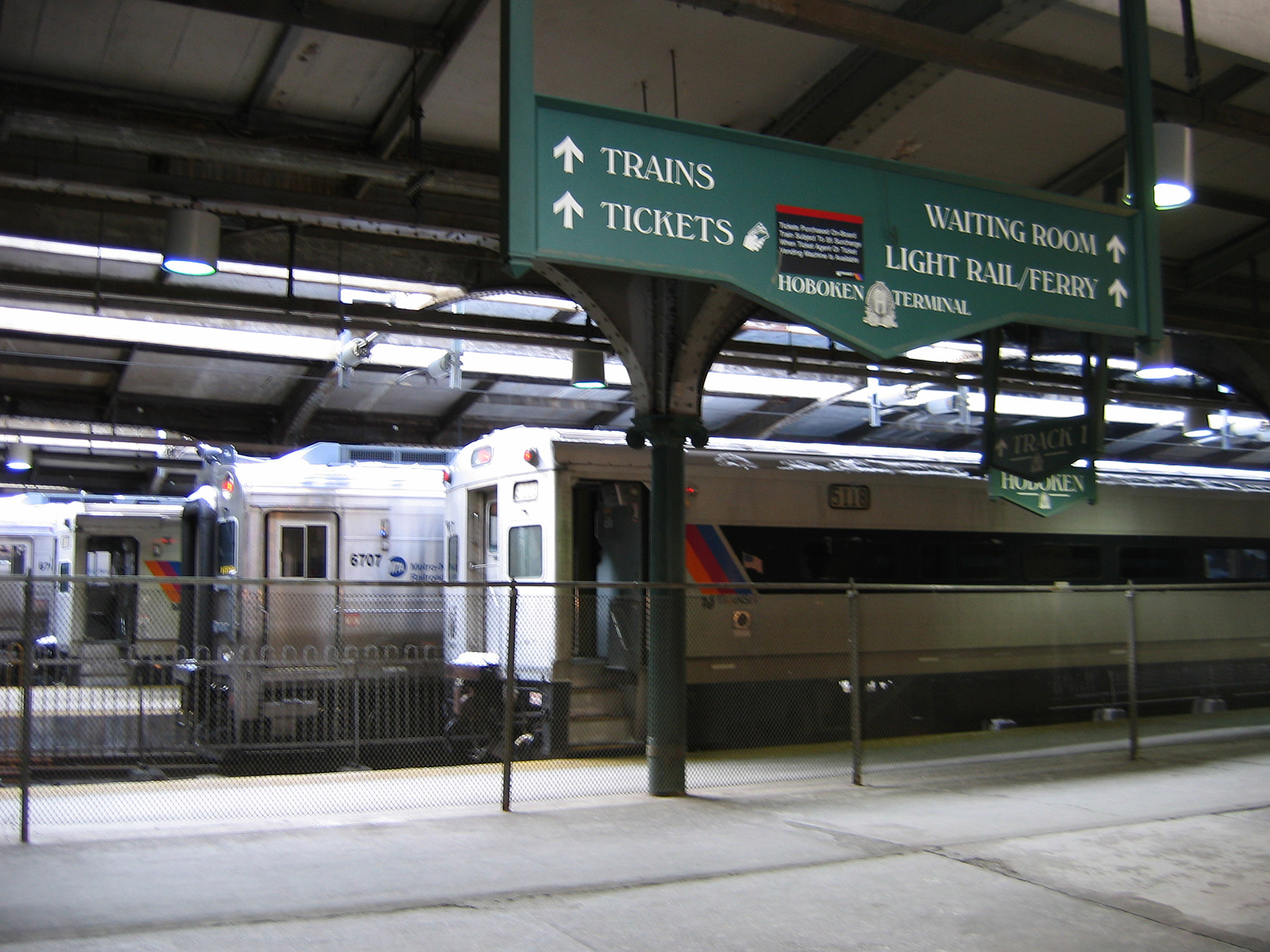 NJ Transit trains at the Hoboken Terminal.